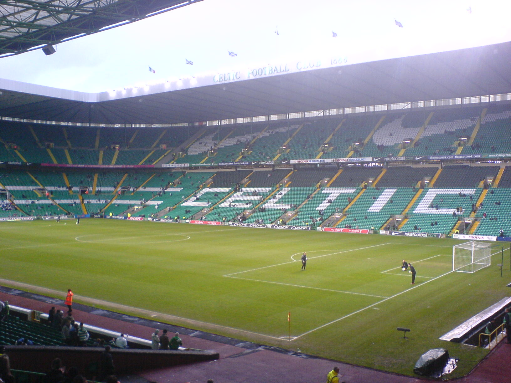 Photo taken by Euan Bain (User:Discosebastian) in Glasgow on December 2nd, 2006. Category:Celtic Park